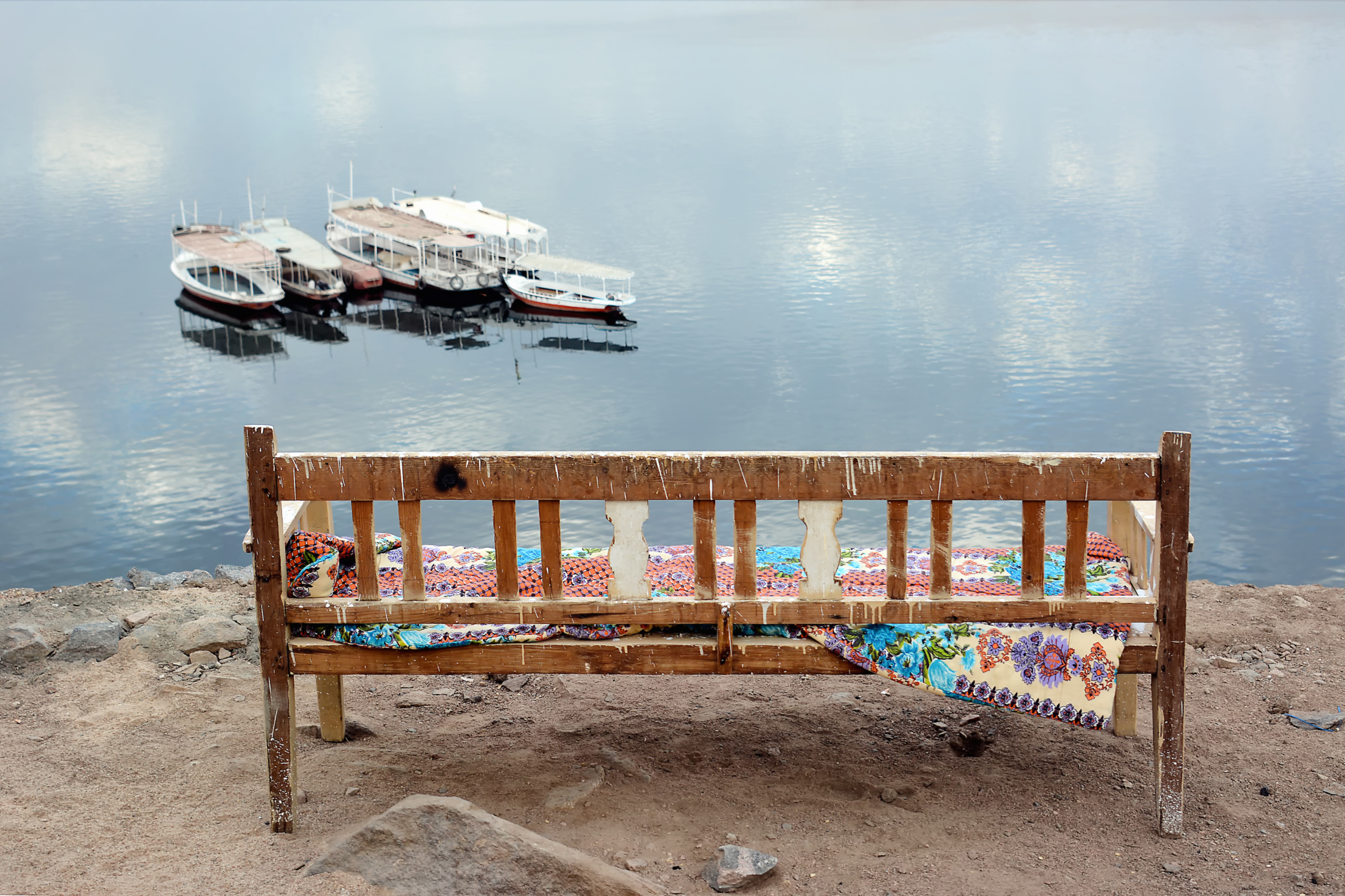 A Place Like This... Dream - Hesa Island -Nubia - Egypt This is an image with the theme "Africa on the Move or Transport" from: Egypt